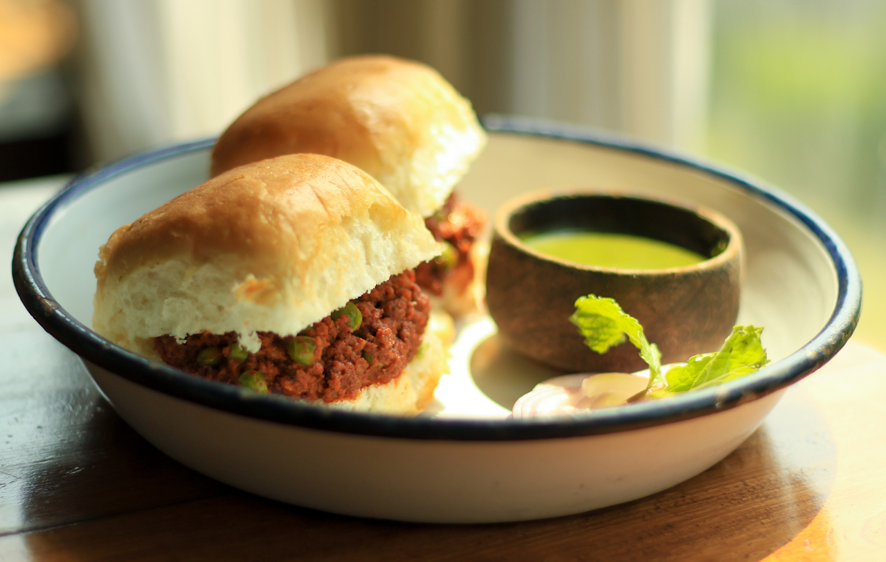 Keema pav is a Keema recipe that is popular in the streets of Mumbai.